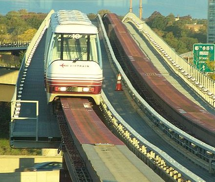 AirTrain Newark